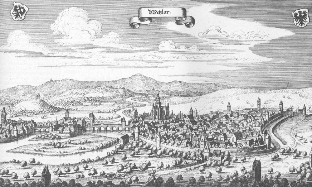 This is a scan of the historical document: Title: Wetzlar - Topographia Hassiae language: german